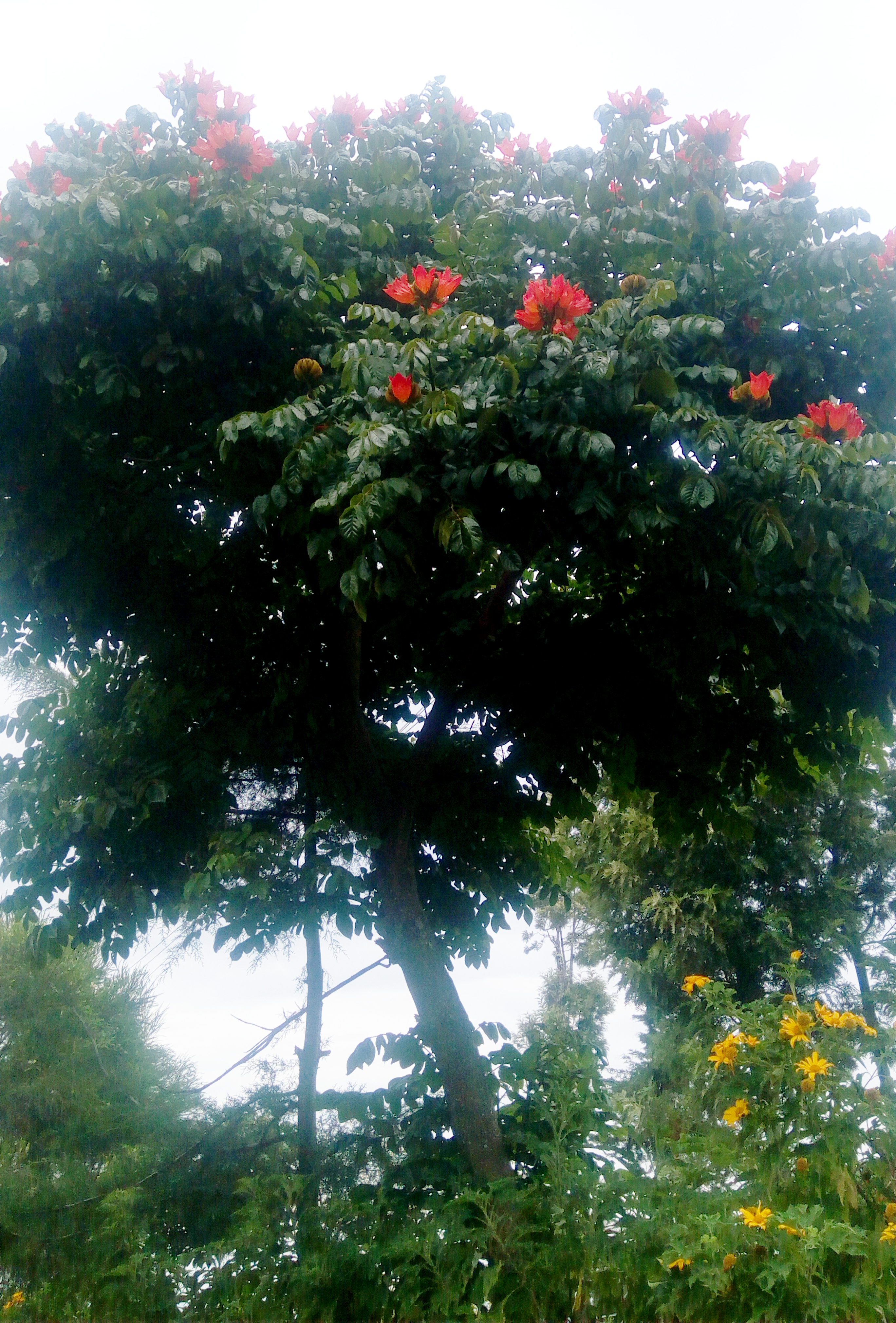 Nandi flame tree in kerio valley